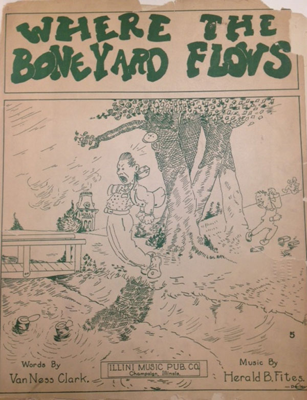 Front cover of the song "Where the Boneyard Flows," written by University of Illinois students Herald Bratt Fites and Cyrus Van Ness Clark.